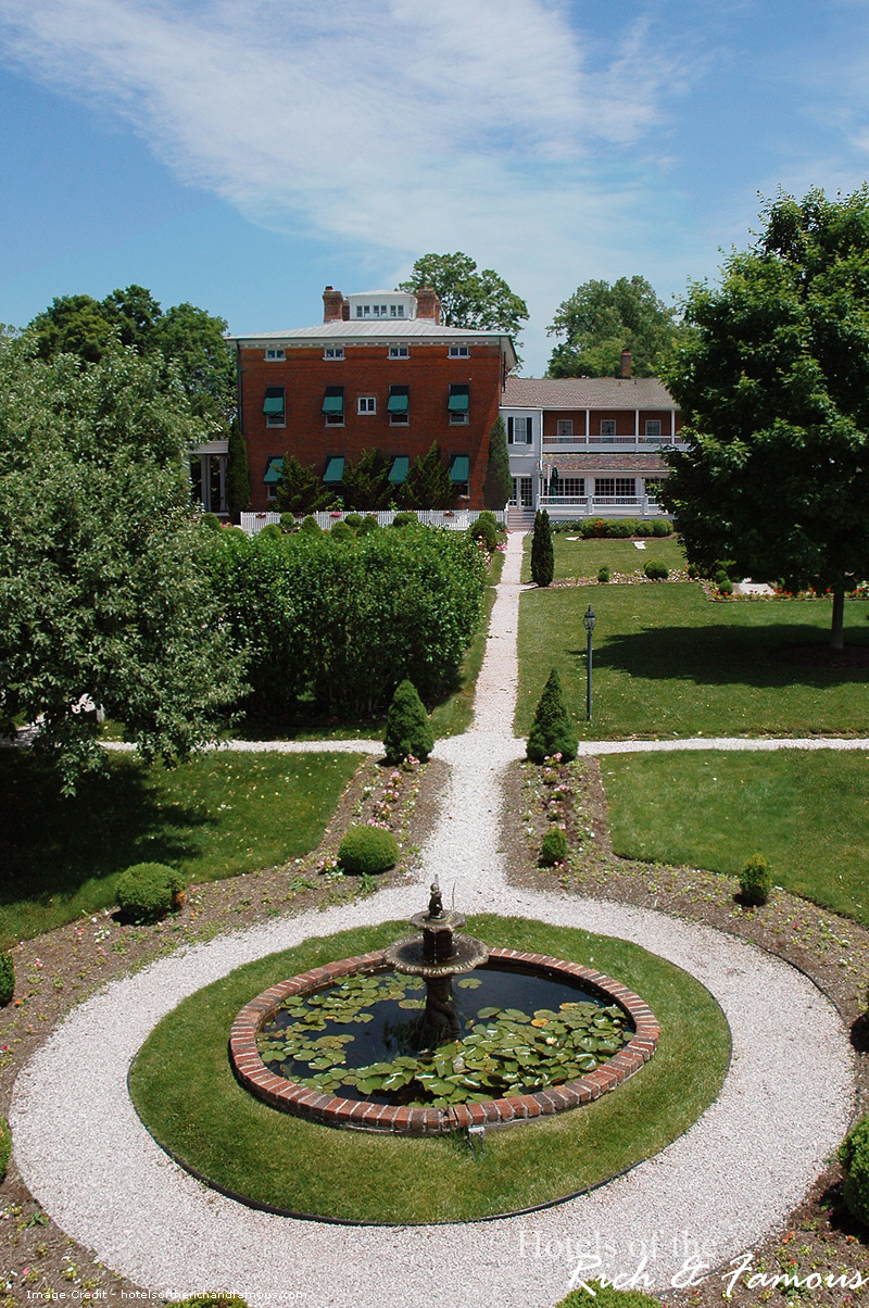 Famous Hotel: Antrim 1844 Country House Hotel, Taneytown, Maryland, United States This image is not for sale. The image may be used with permission and image credit. Image Credit: Heather Holman from Hotels of the Rich and Famous. More on Antrim 1844